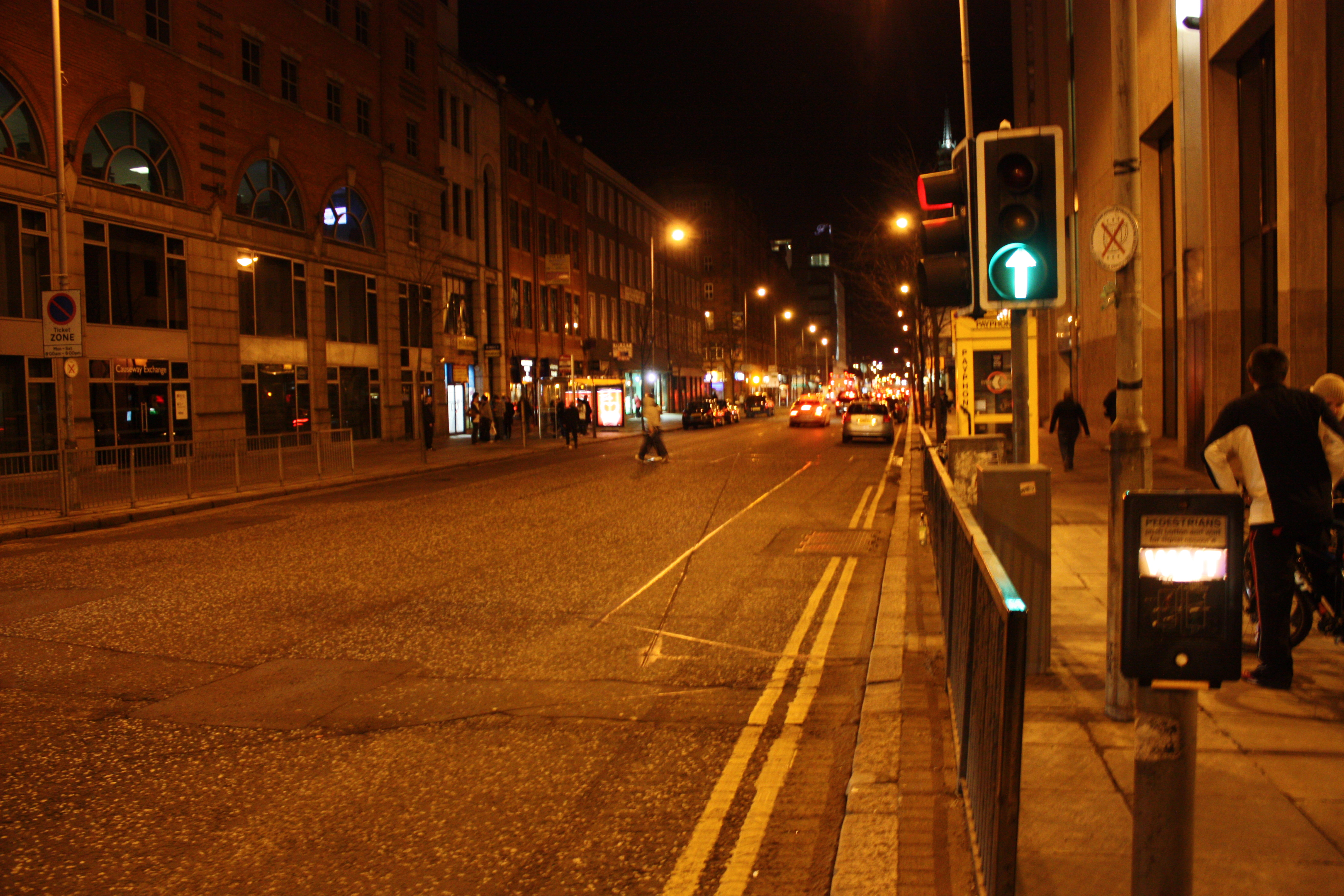 Howard Street, Belfast, Northern Ireland, March 2010 (after Red Bull F1 Event)